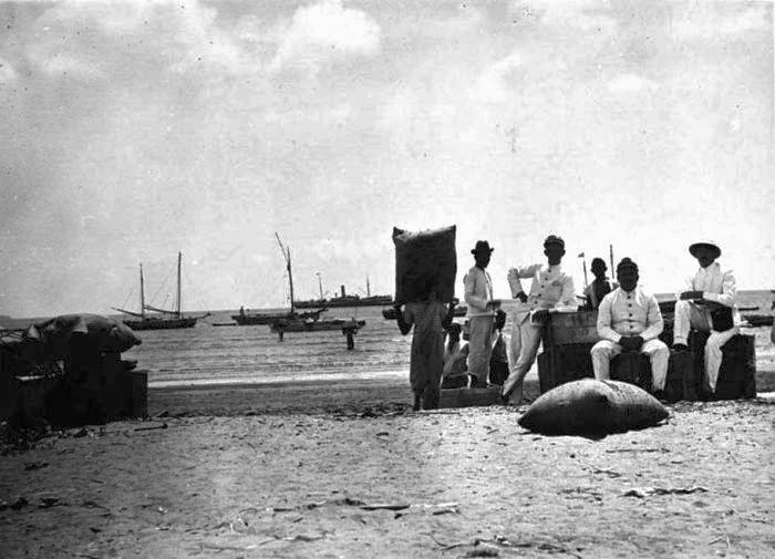 Unloading of a steamer of the KPM at the beach near Kajeli